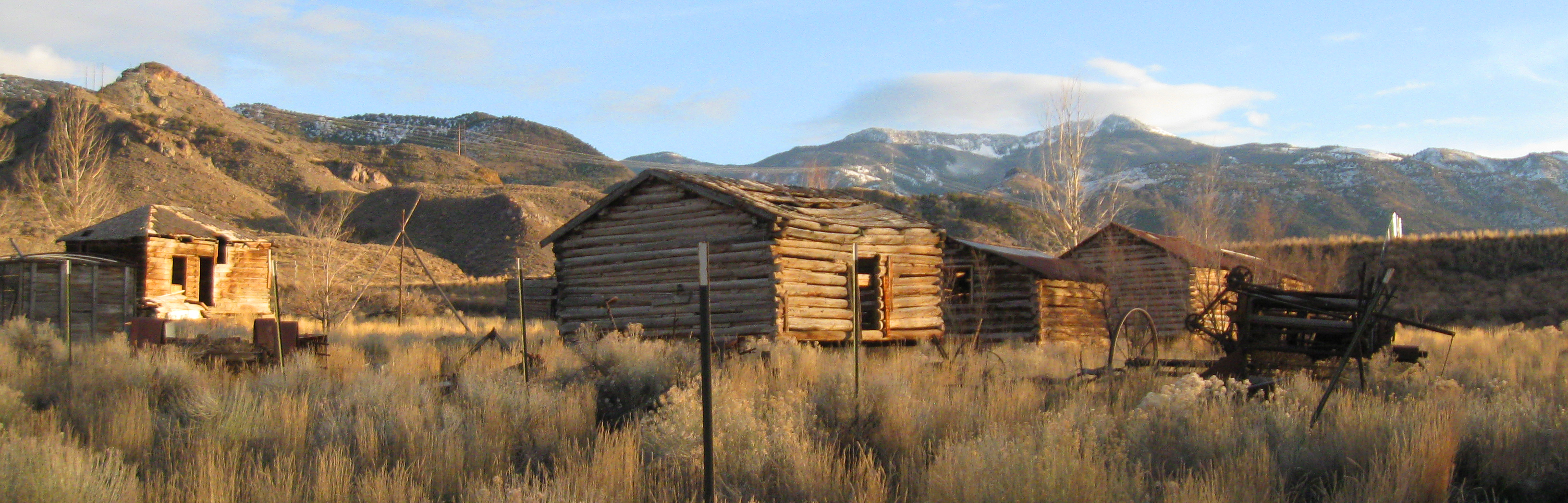 Old Cabins at Mystic Hot Springs